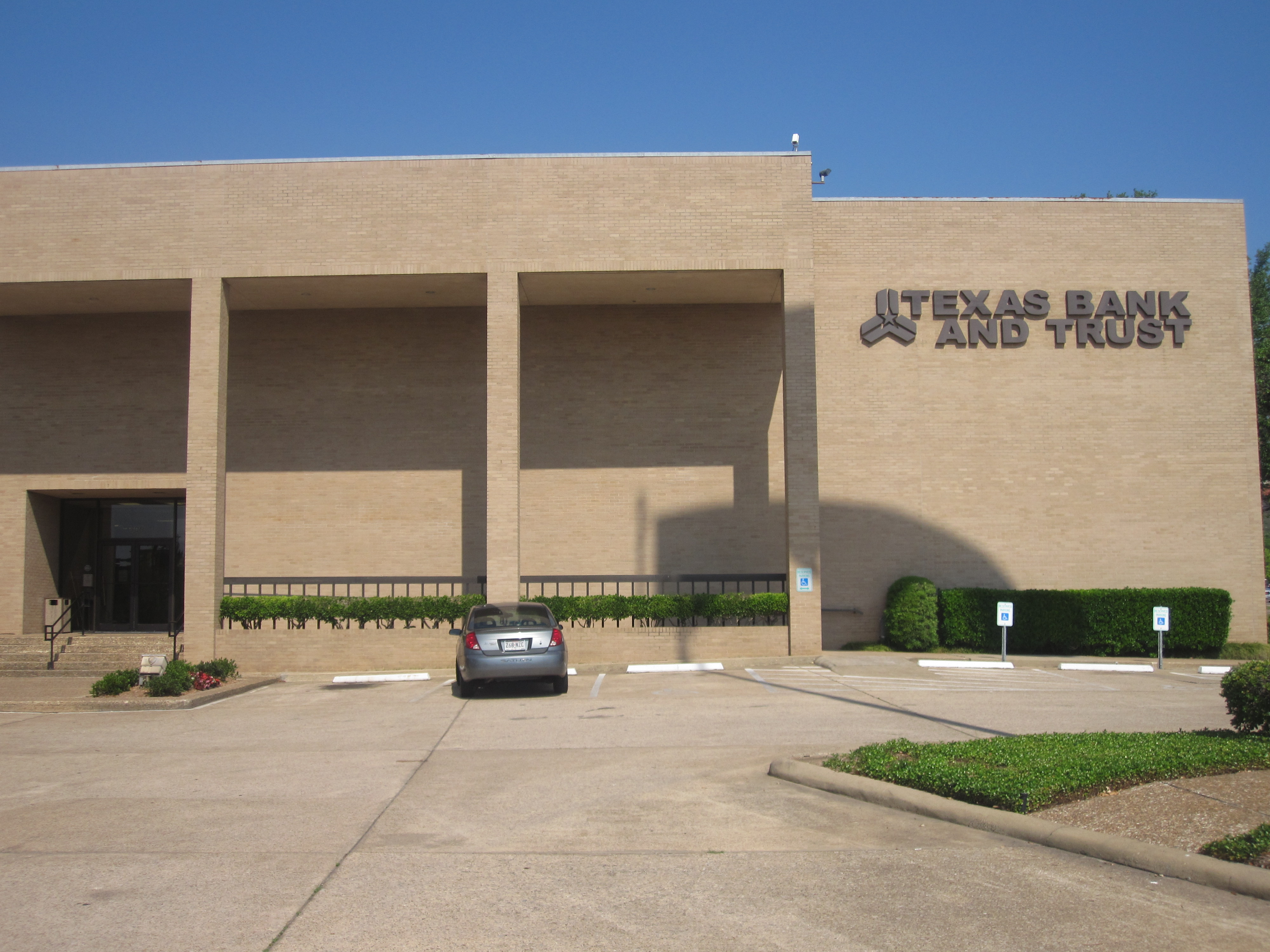 I took photo with Canon camera in Longview, TX.